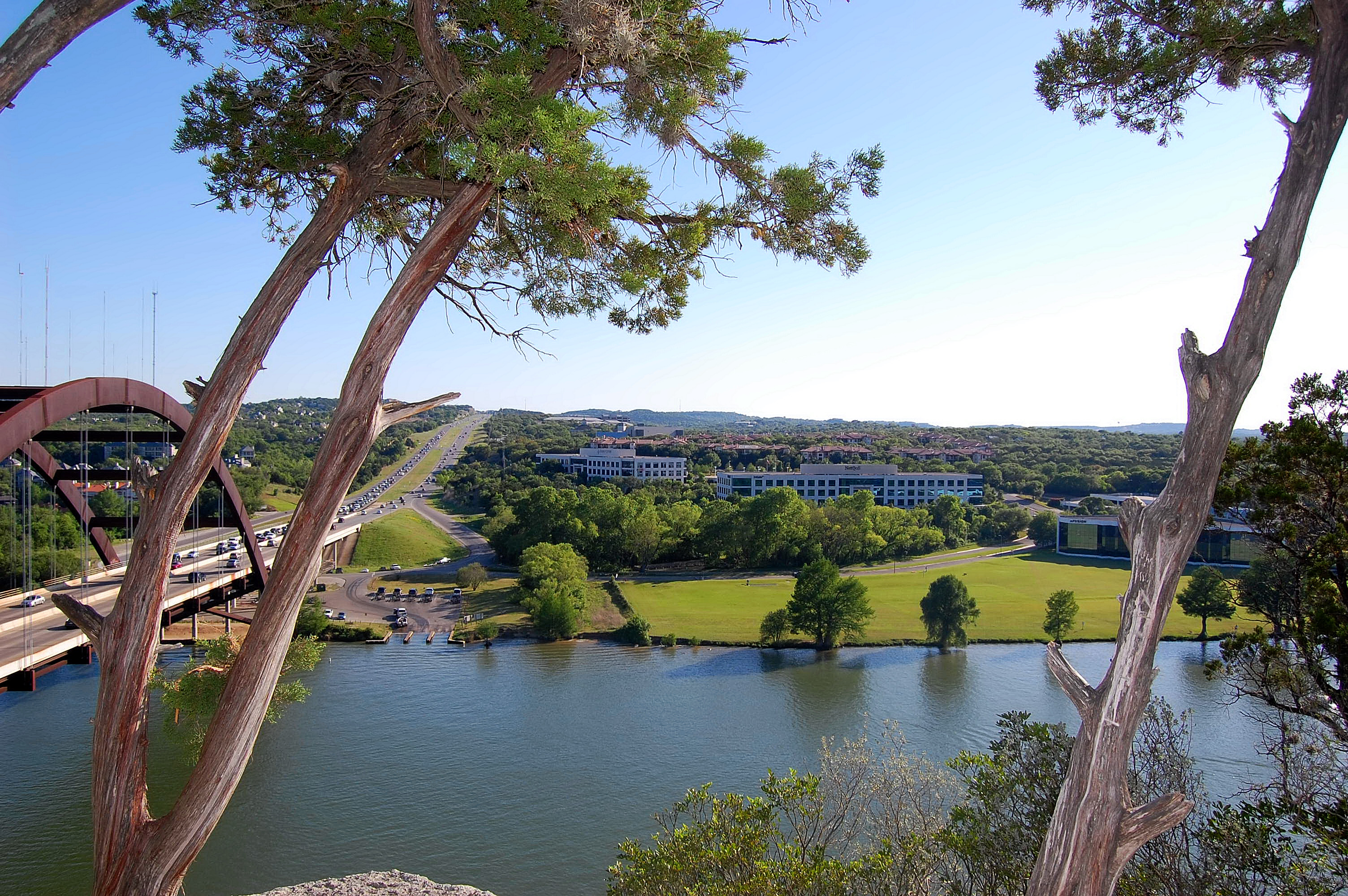 Lake Austin from scenic overlook above the Pennybacker Bridge